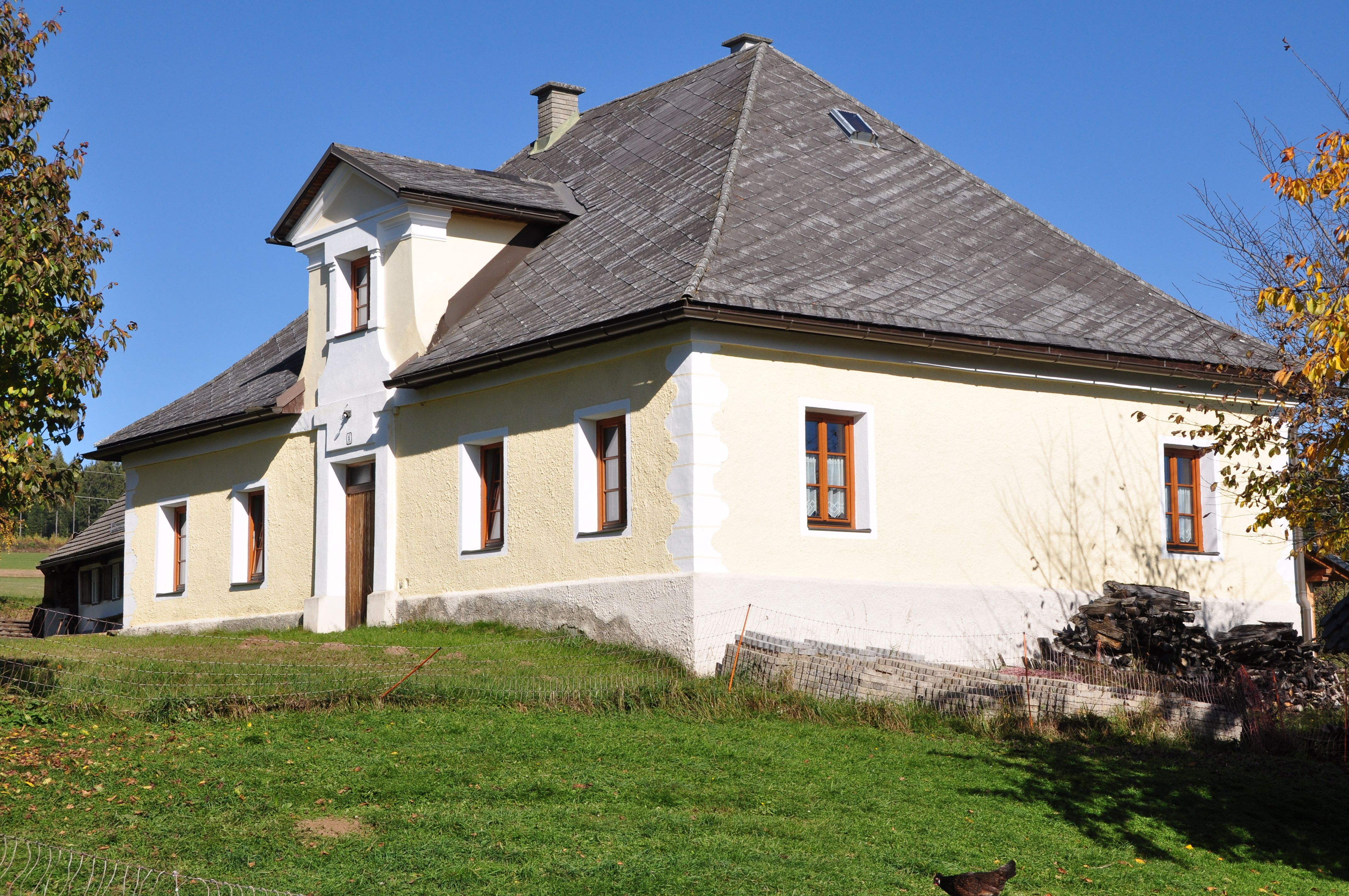 Rectory at Saint James #3, municipality Strassburg, district Sankt Veit an der Glan, Carinthia / Austria / EU